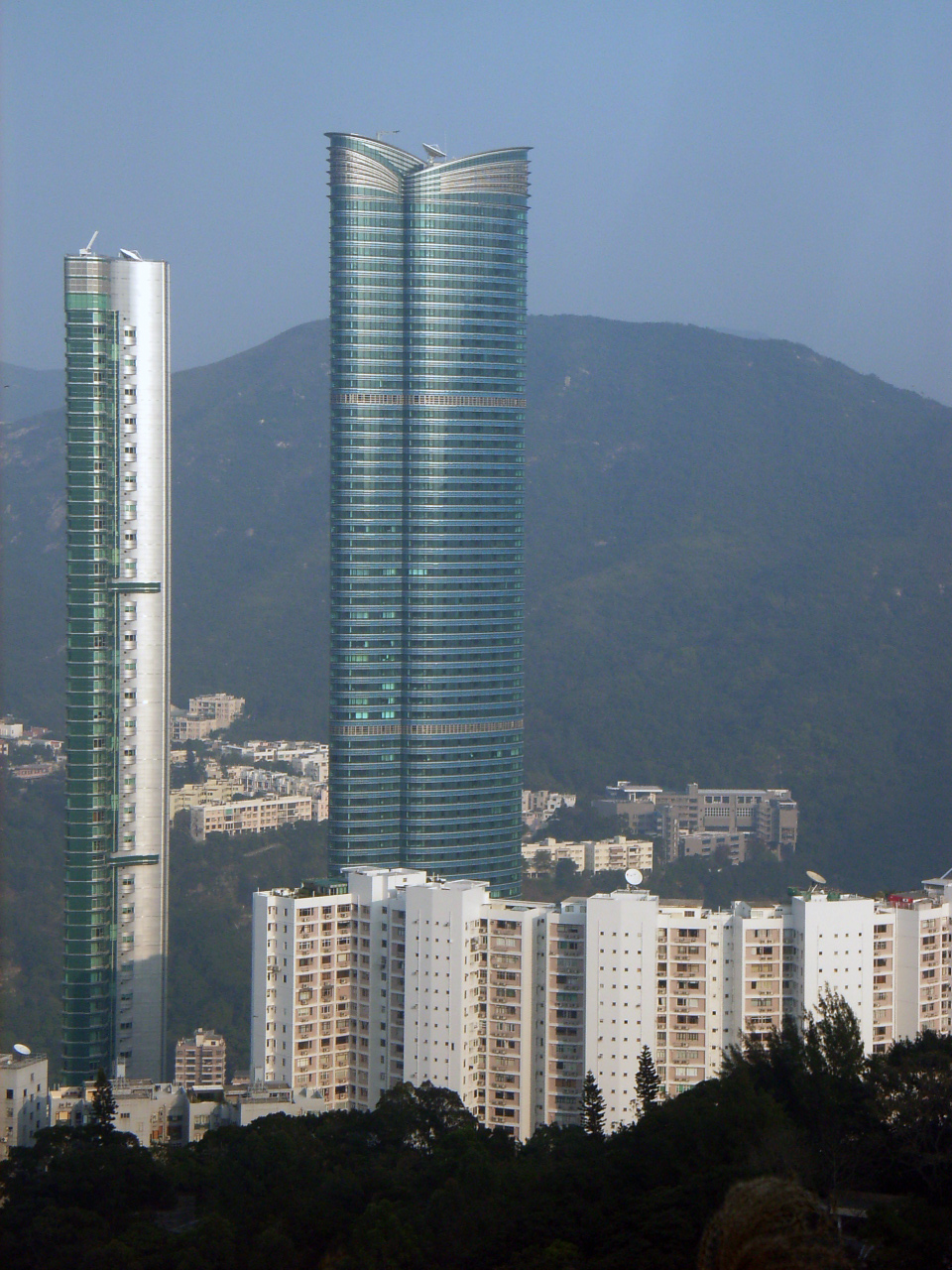 Highcliff, Hong Kong Island, Hong Kong